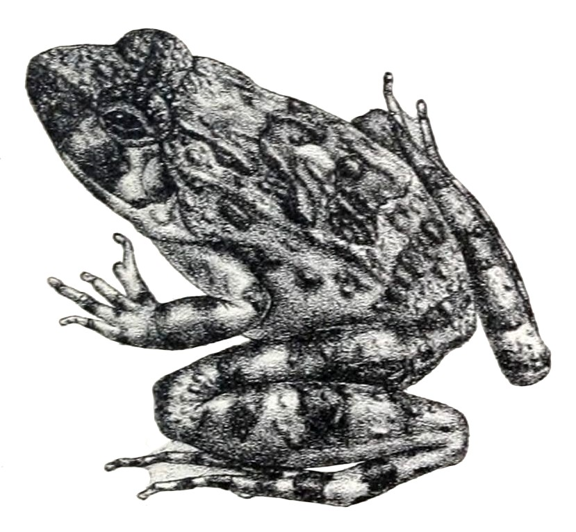 Rana verrucosa = Fejervarya keralensis